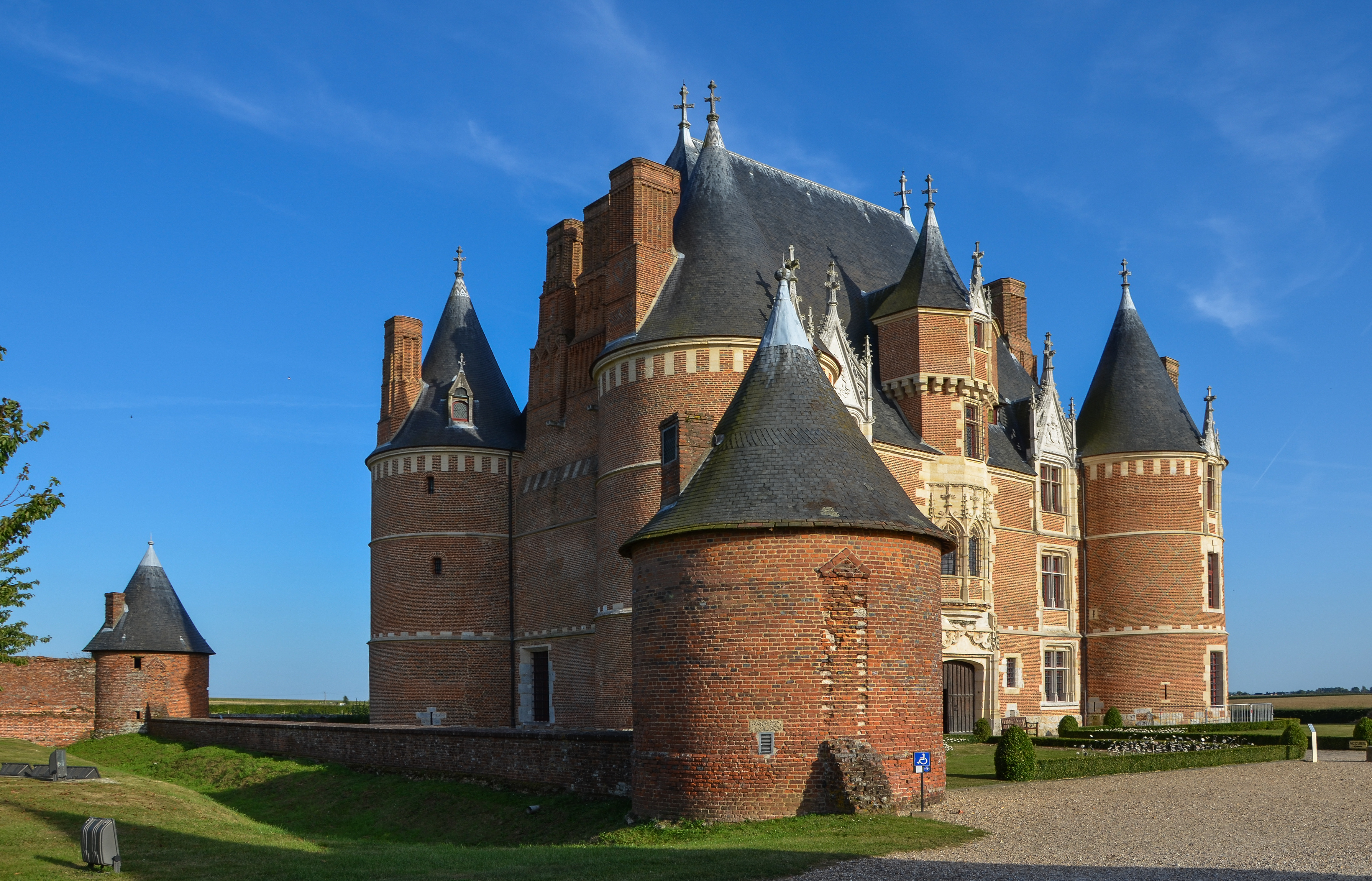 Castle of Martainville, Seine-Maritime, Normandy, France